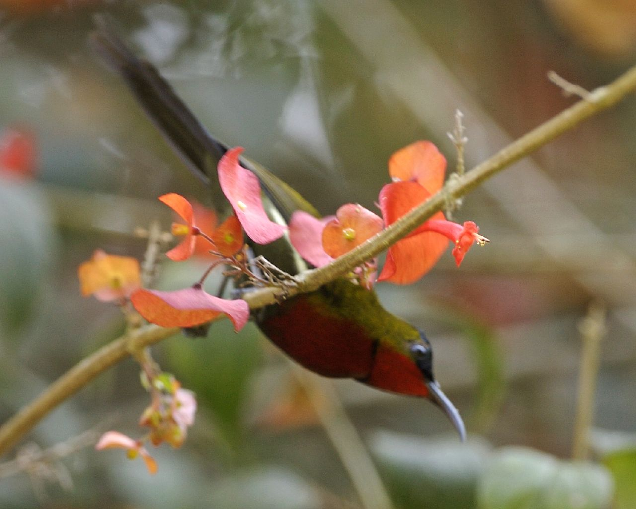 White-flanked Sunbird Aethopyga eximia 11th. August 2007 Location : Gunong Gede, Java, Indonesia The white flank is clear here but bird is unfortunately out of focus _Q0S8765